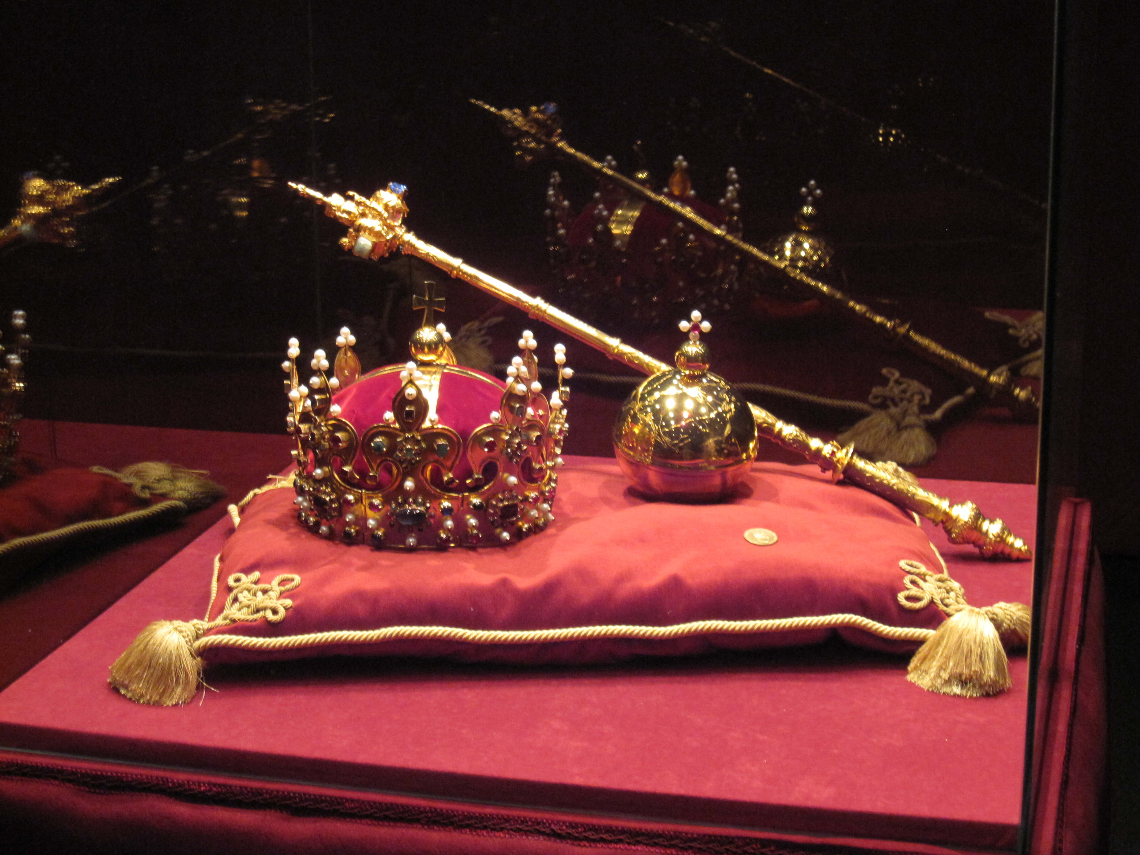 Polish crown jewels, consisting of the crown of Bolesław I the Brave, and the orb and sceptre used by Stanislaus II August of Poland. Copies were made in 2001-2003.